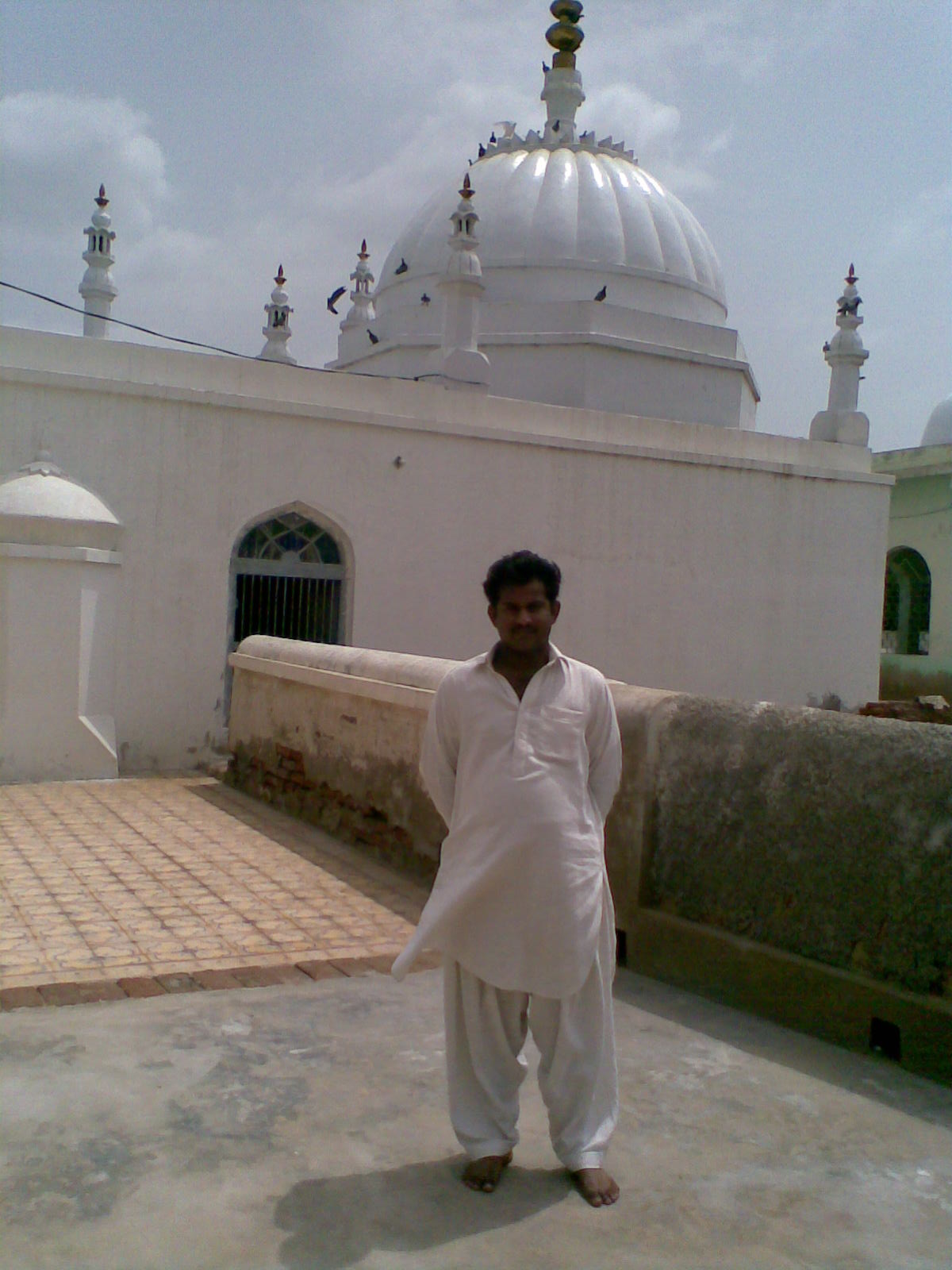 Source: I had visited the groahar and took this picture. Author: Qadeer Mangrio